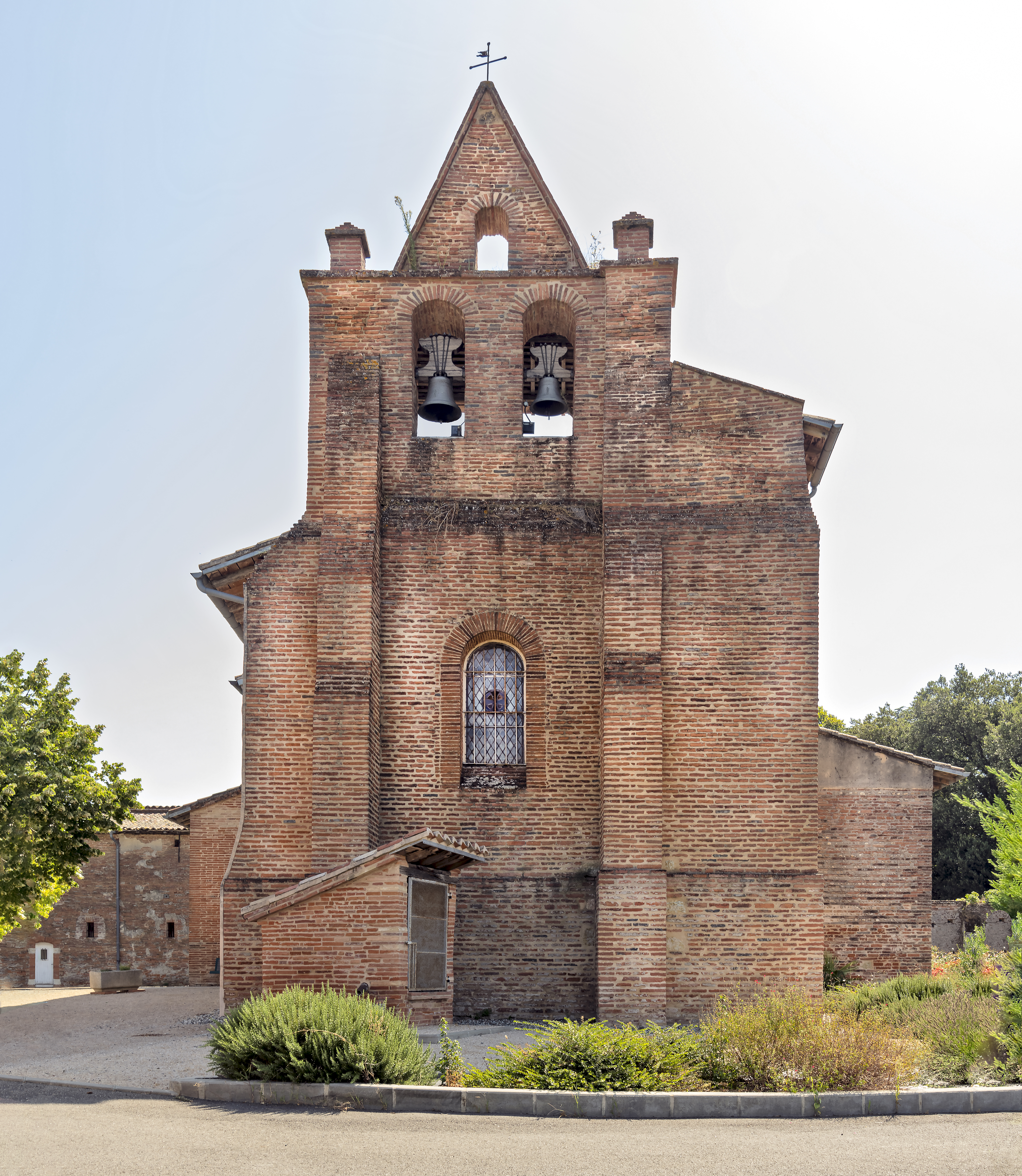 Gémil - Church of St. Peter - Bell gable